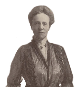 Mrs. Edward MacDowell piano recitals of MacDowell music, ca. 1920. Publicity brochure. Edward and Marian MacDowell Collection, Music Division, Library of Congress (12). Digital ID #mc0012.